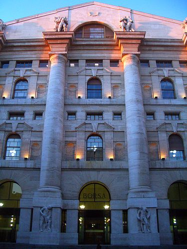 Palazzo Mezzanotte